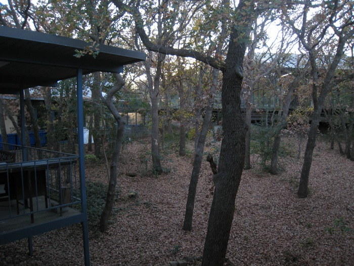 A view of the printmaking studios through a grove of trees, Haggerty Art Village, University of Dallas, Texas